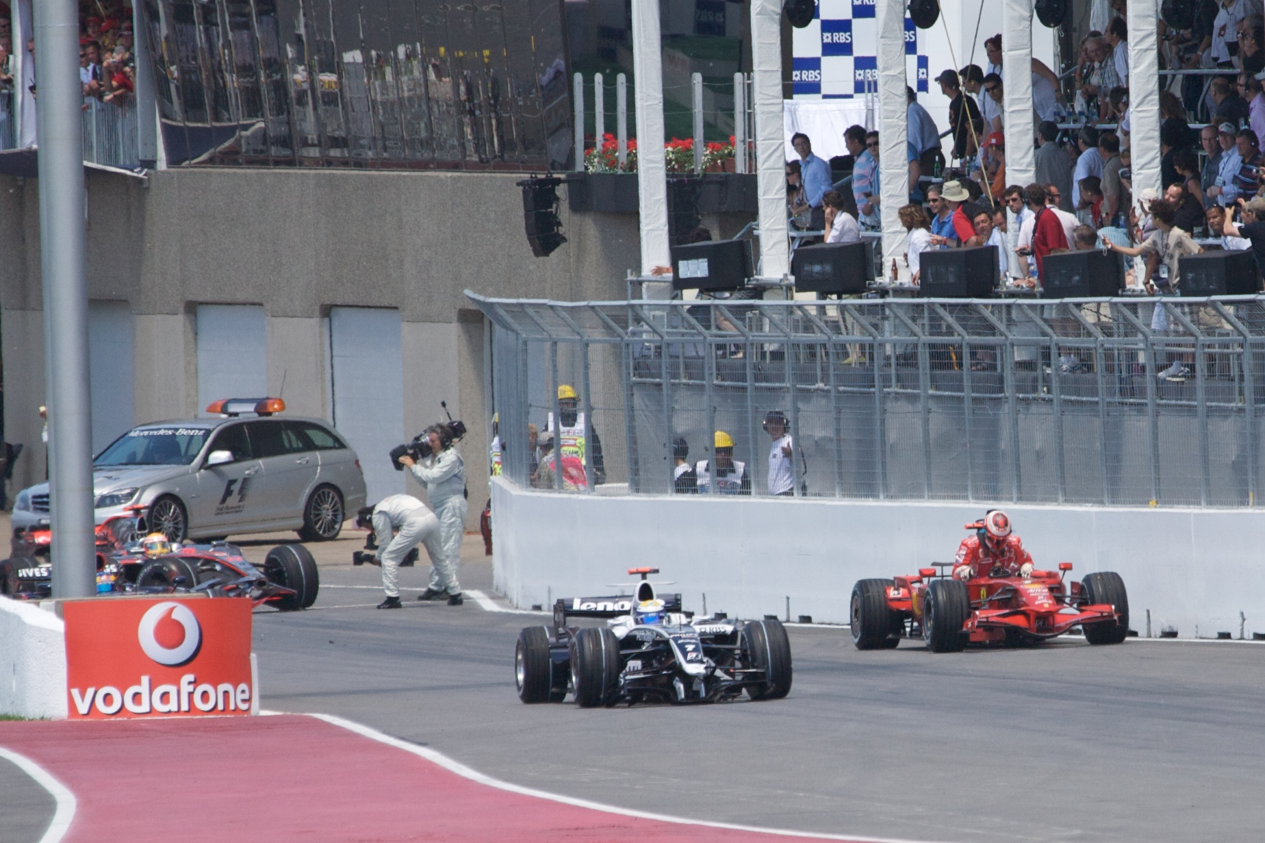 Following a three-car collision in the pitlane at the 2008 Canadian Grand Prix, Lewis Hamilton and Kimi Räikkönen retire, whilst Nico Rosberg continues with a broken front wing.